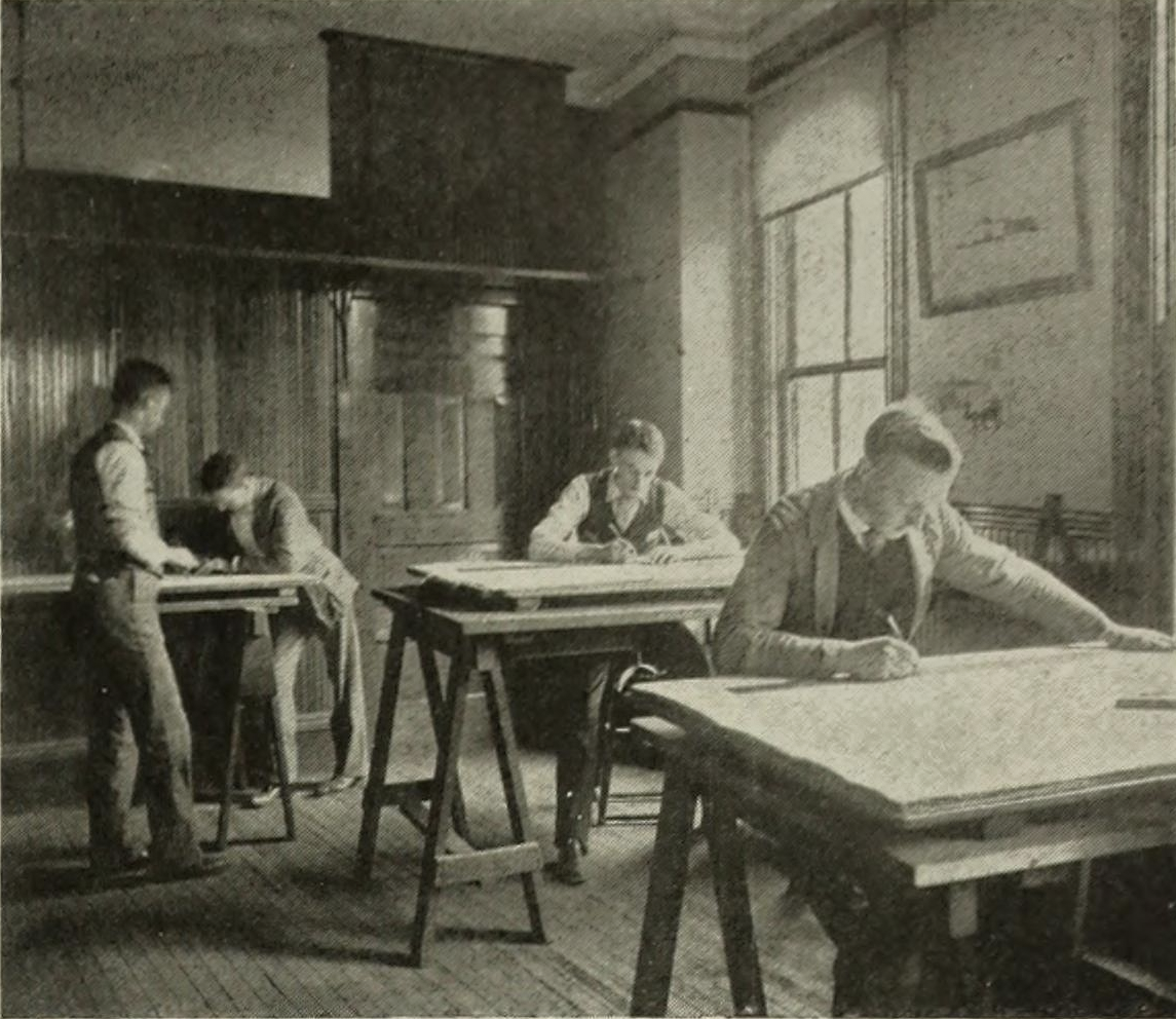 A drafting room in the D. H. & A. B. Tower offices, shortly after David H. Tower left the business.